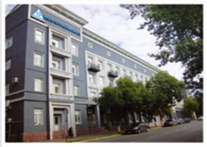 Building Vunipigaz